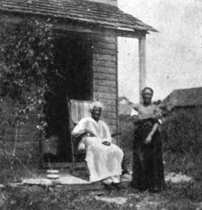 Home of Louisa Magruder (454 Highland Ave, Indianapolis, IN), daughter of Tom Magruder, the "Uncle Tom" of Uncle Tom's Cabin.